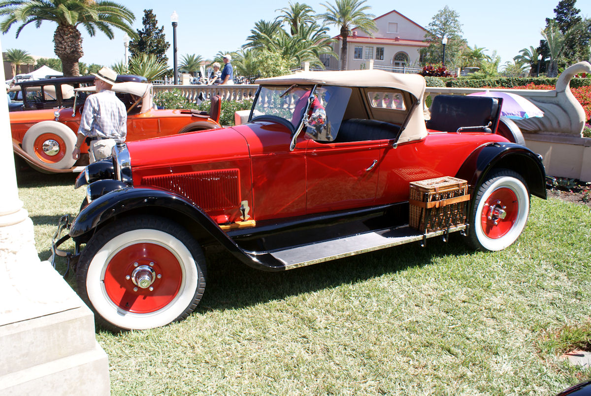 Very early Wills Sainte Claire Model A-68 2/4 passenger Roadster (1921) with 67 bhp dohc V-8 engine of Wills design.SONY DSC